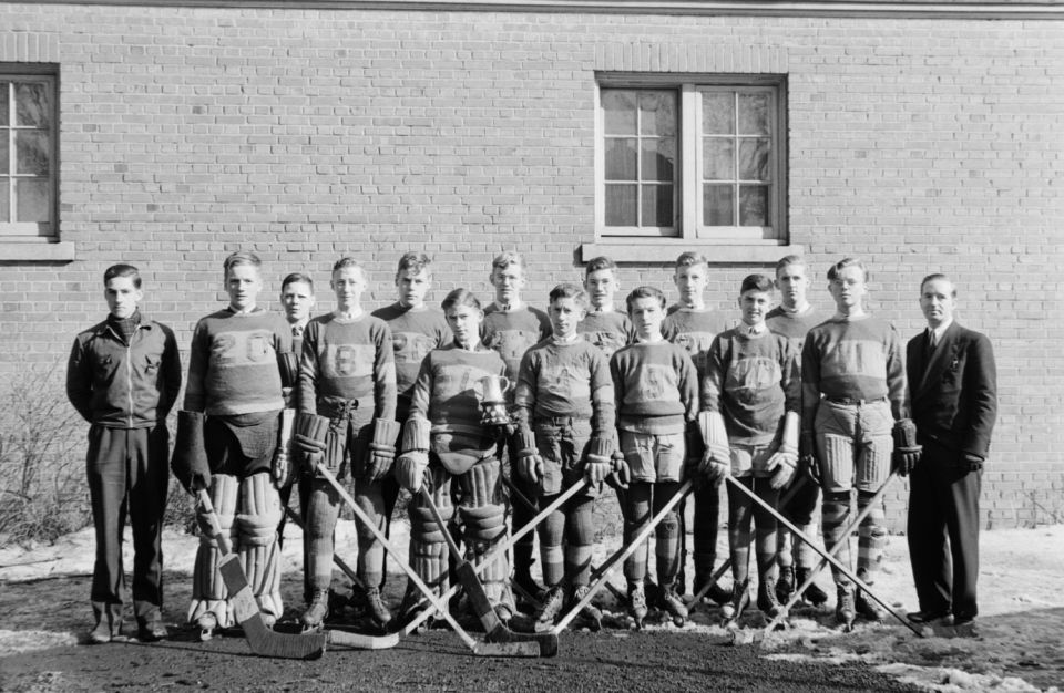 We see players from the junior hockey team of the "Montreal West High School" located at 189 Easton Avenue in Montreal West. The goalkeeper holds a trophy.